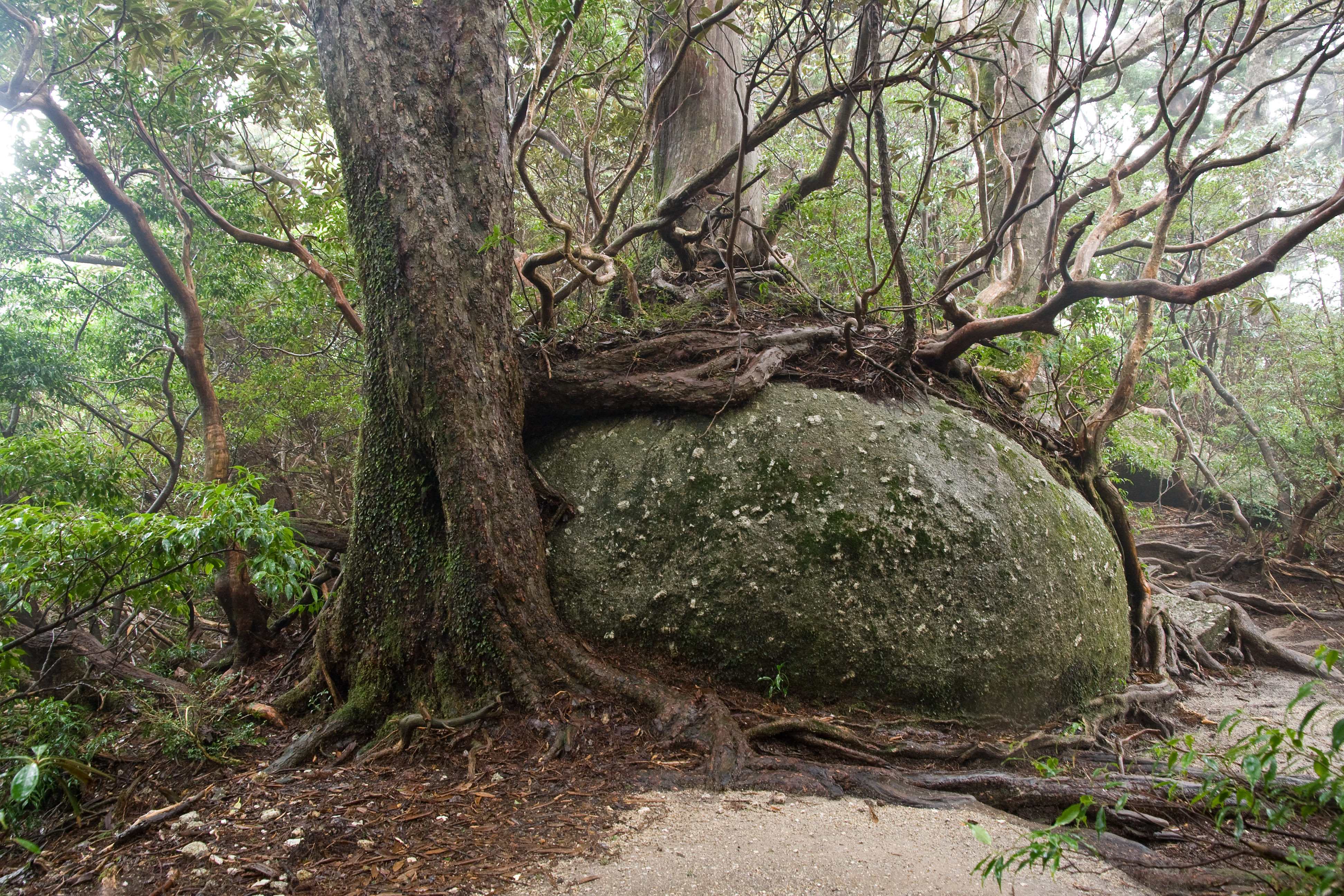 The forest in Yakushima, Kagoshima Pref., Japan.